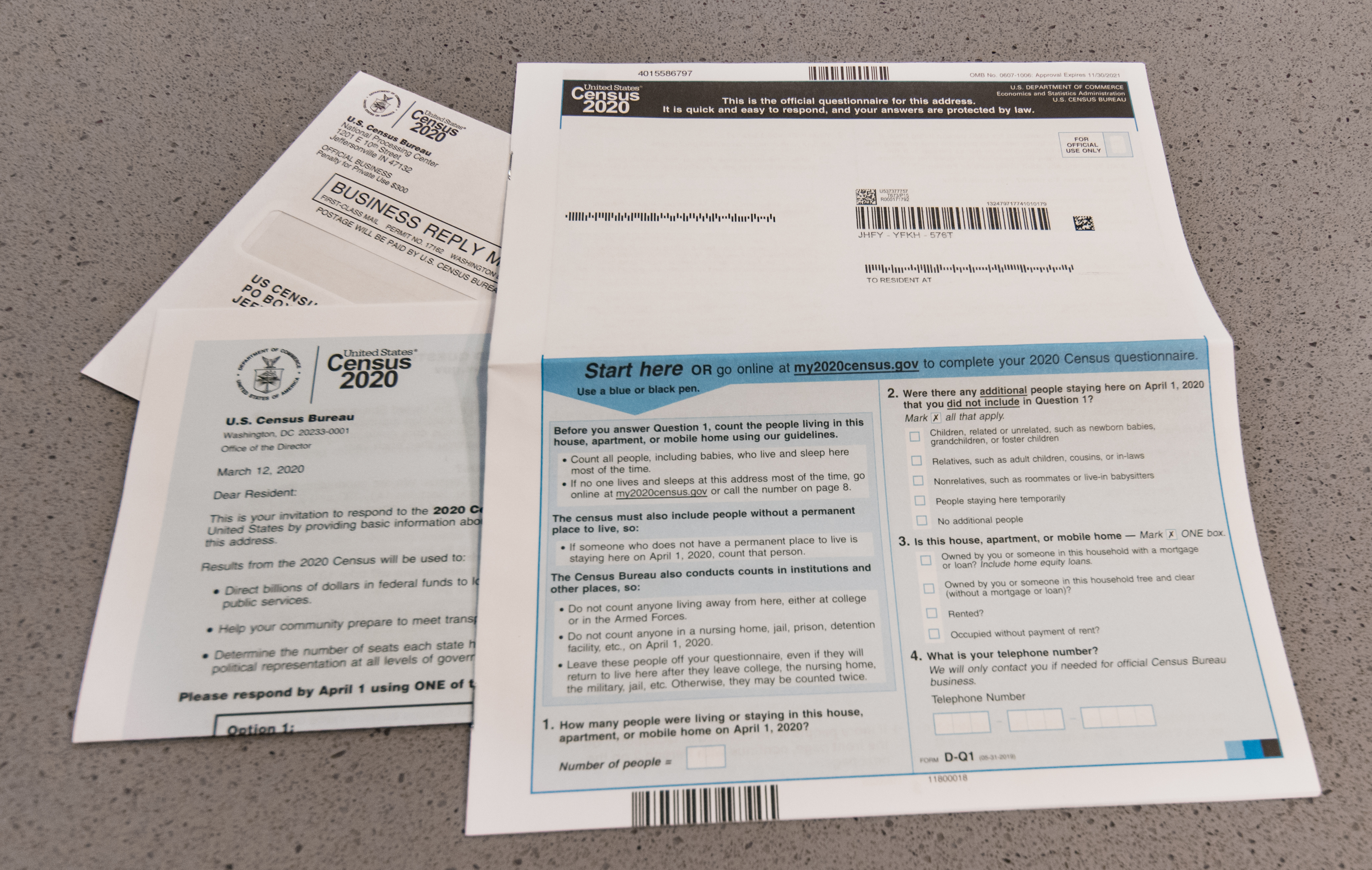 2020 US census questionnaire mailed today